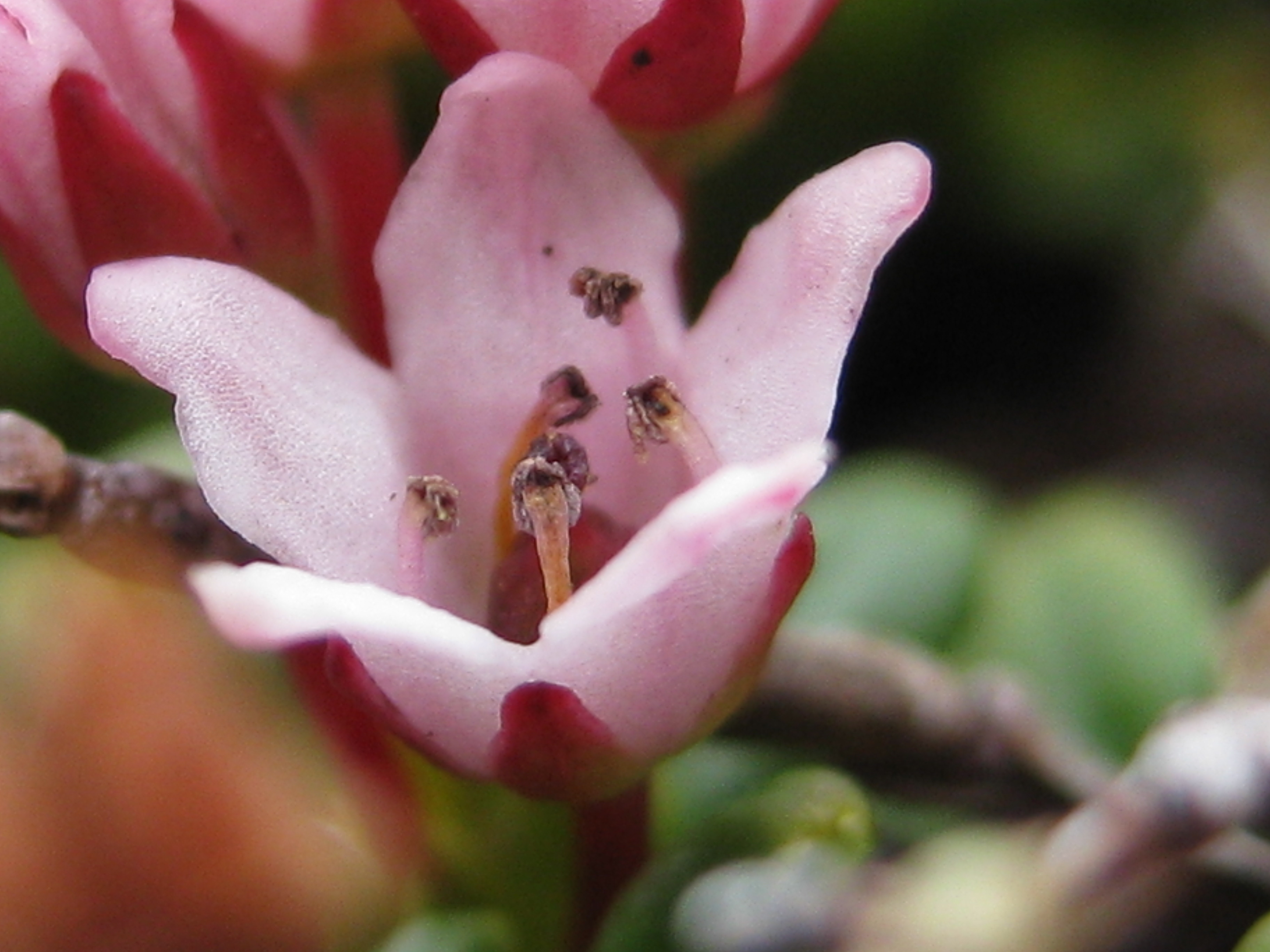 Close-up of Loiseleuria procumbens, photographed near Halne, at the border between Hordaland and Buskerud counties, Norway, 1100-1200 meters above sea level.